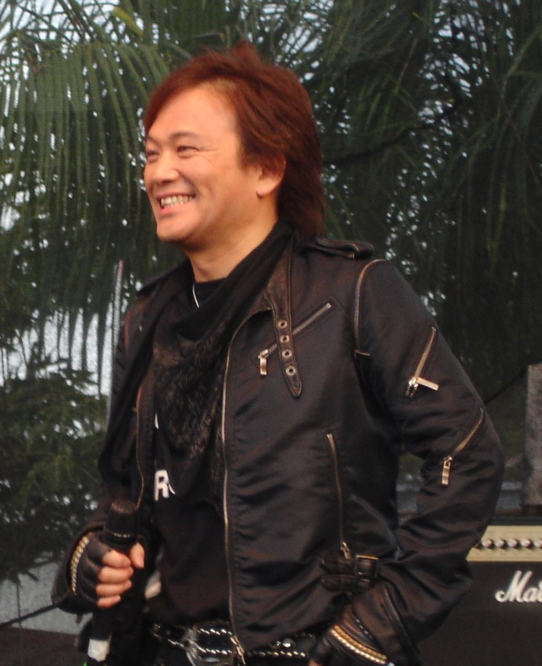 Hironobu Kageyama performing at Anime Nation in Brasília in 2012